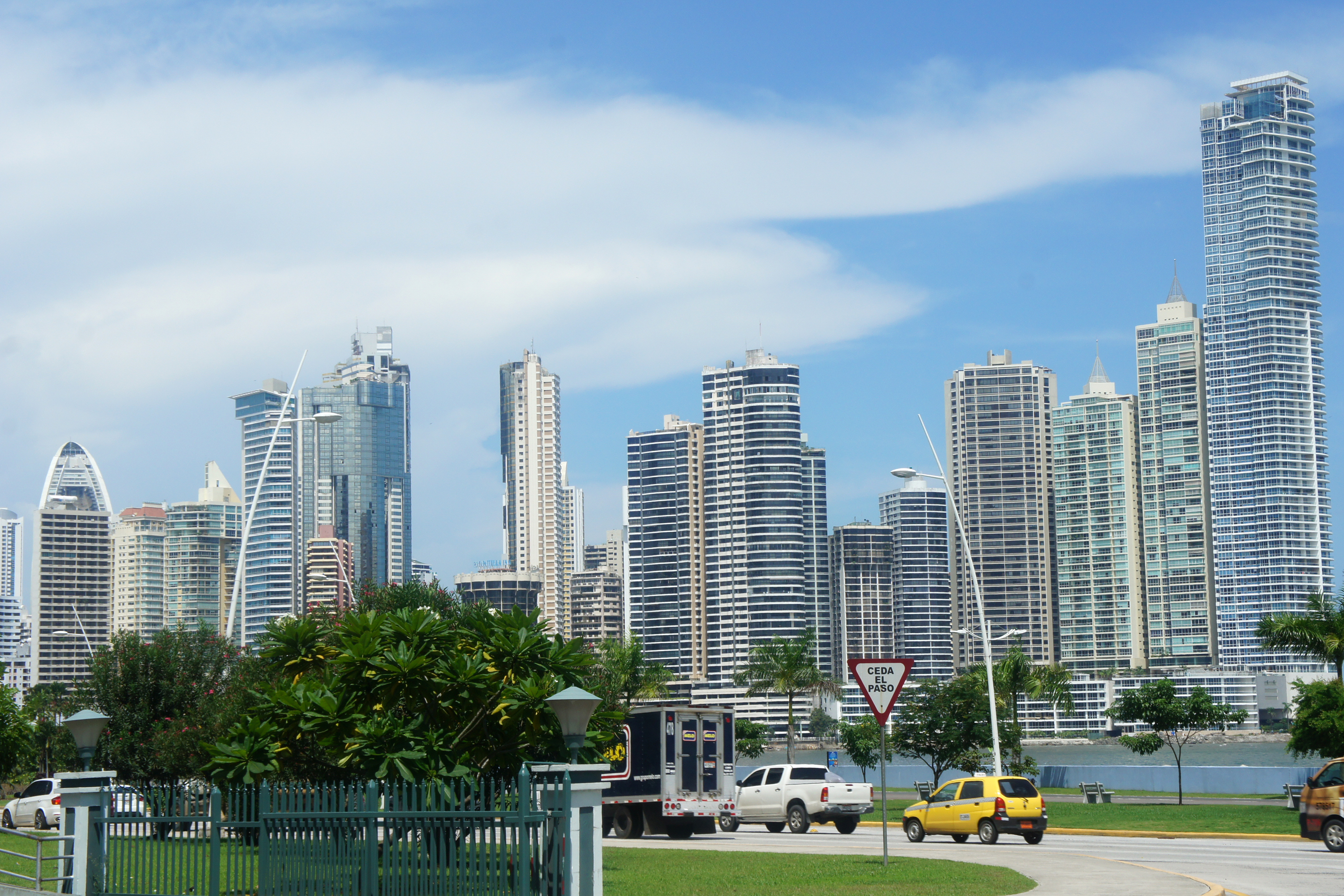 Skyline Panama City, near Balboa Avenue and Punta Paitilla